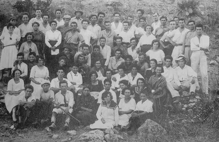 Gdud Shomeria Members, 1920. Ze'ev On circled